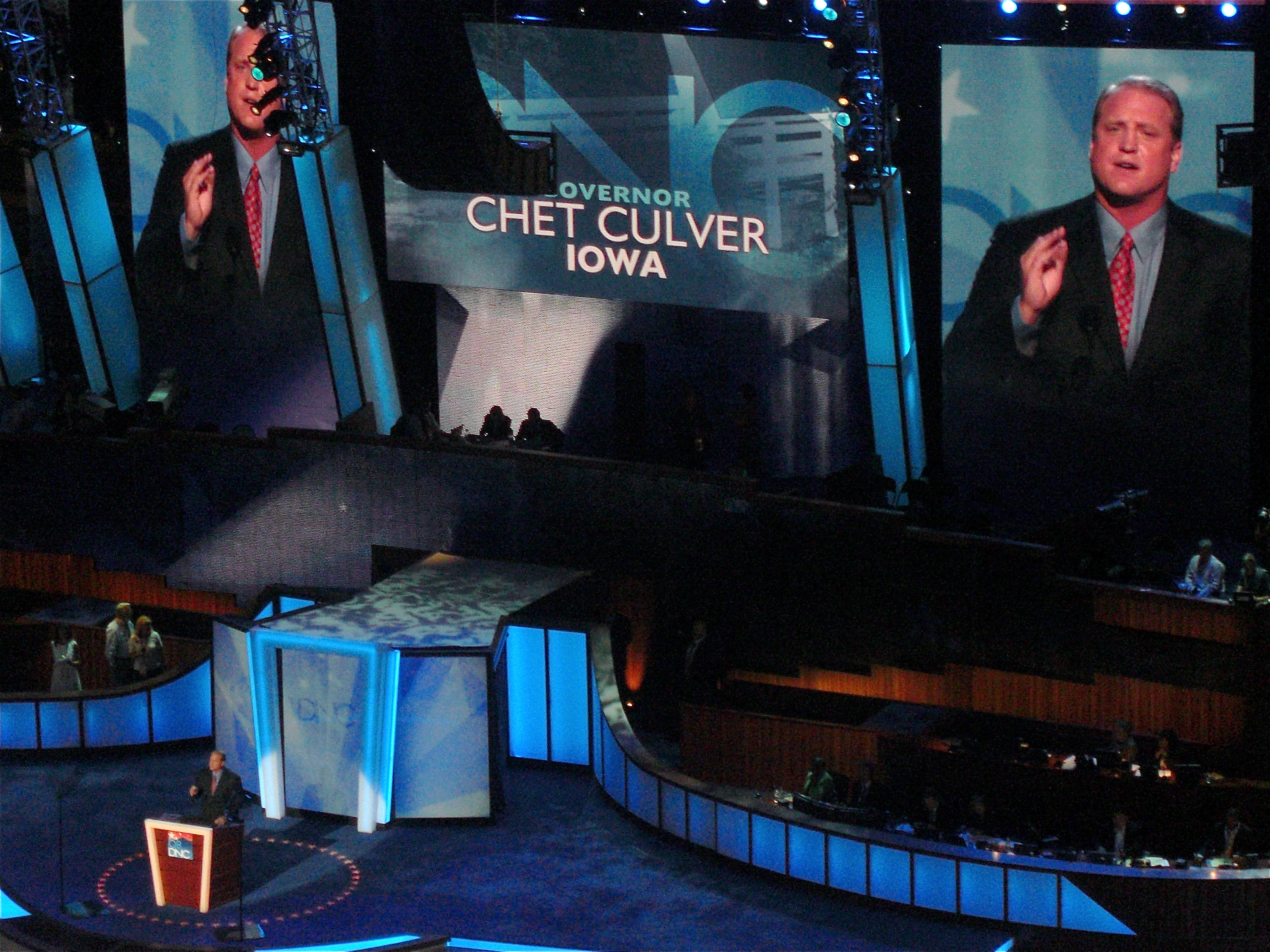 Chet Culver speaks during the second day of the 2008 Democratic National Convention in Denver, Colorado.